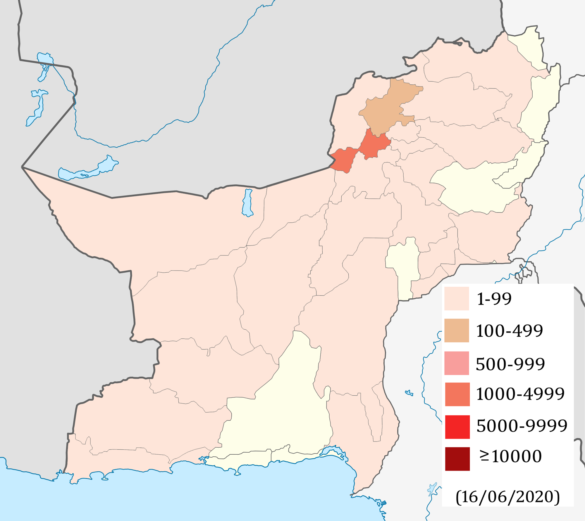 Districts with confirmed Covid-19 cases in the Province of Balochistan, Pakistan. [1]